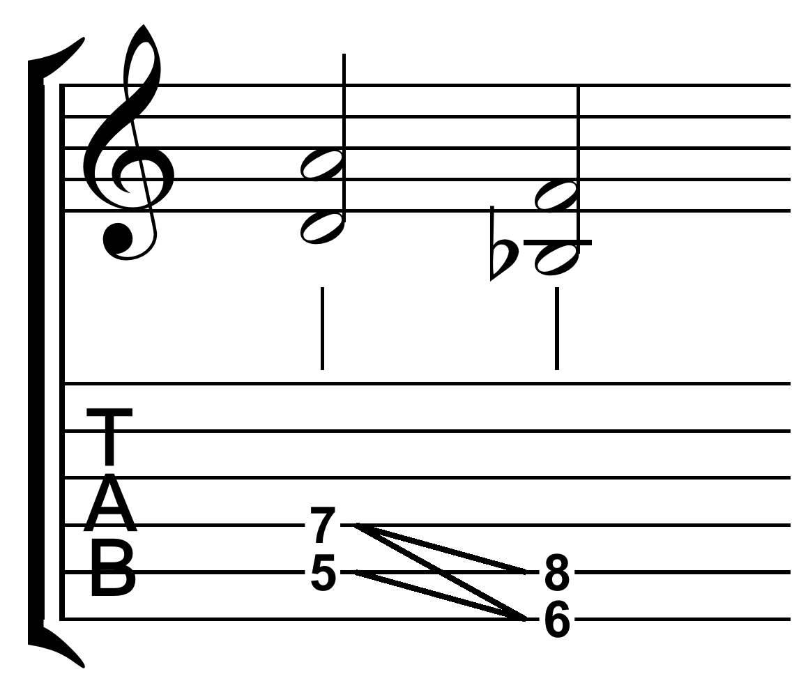 Spider chord on D. Created by Hyacinth (talk) 00:26, 3 May 2010 using Sibelius 5.